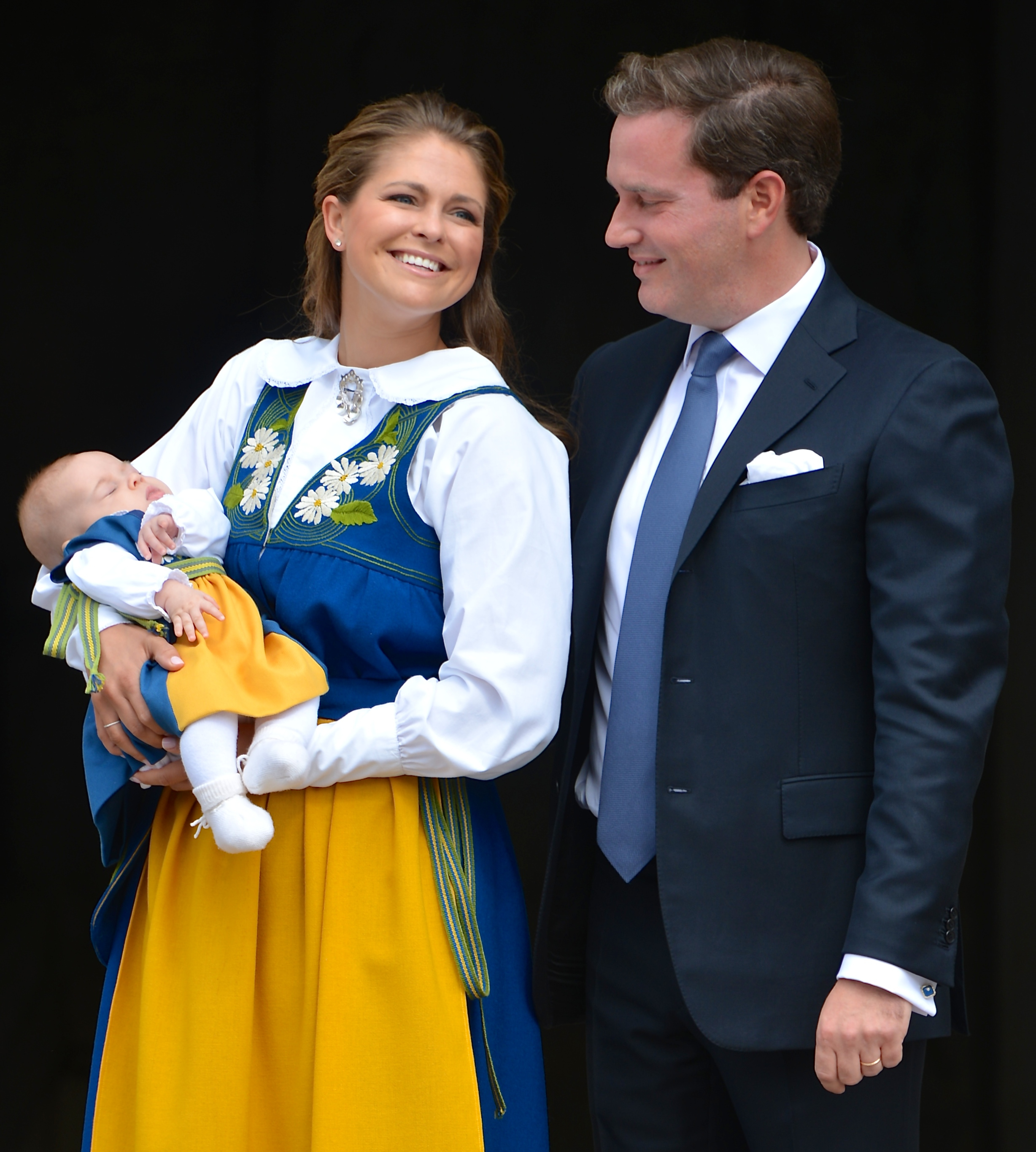 Princess Madeleine of Sweden and Christopher O'Neill on National Day June 6, 2014 in southern arch to the Royal Palace.